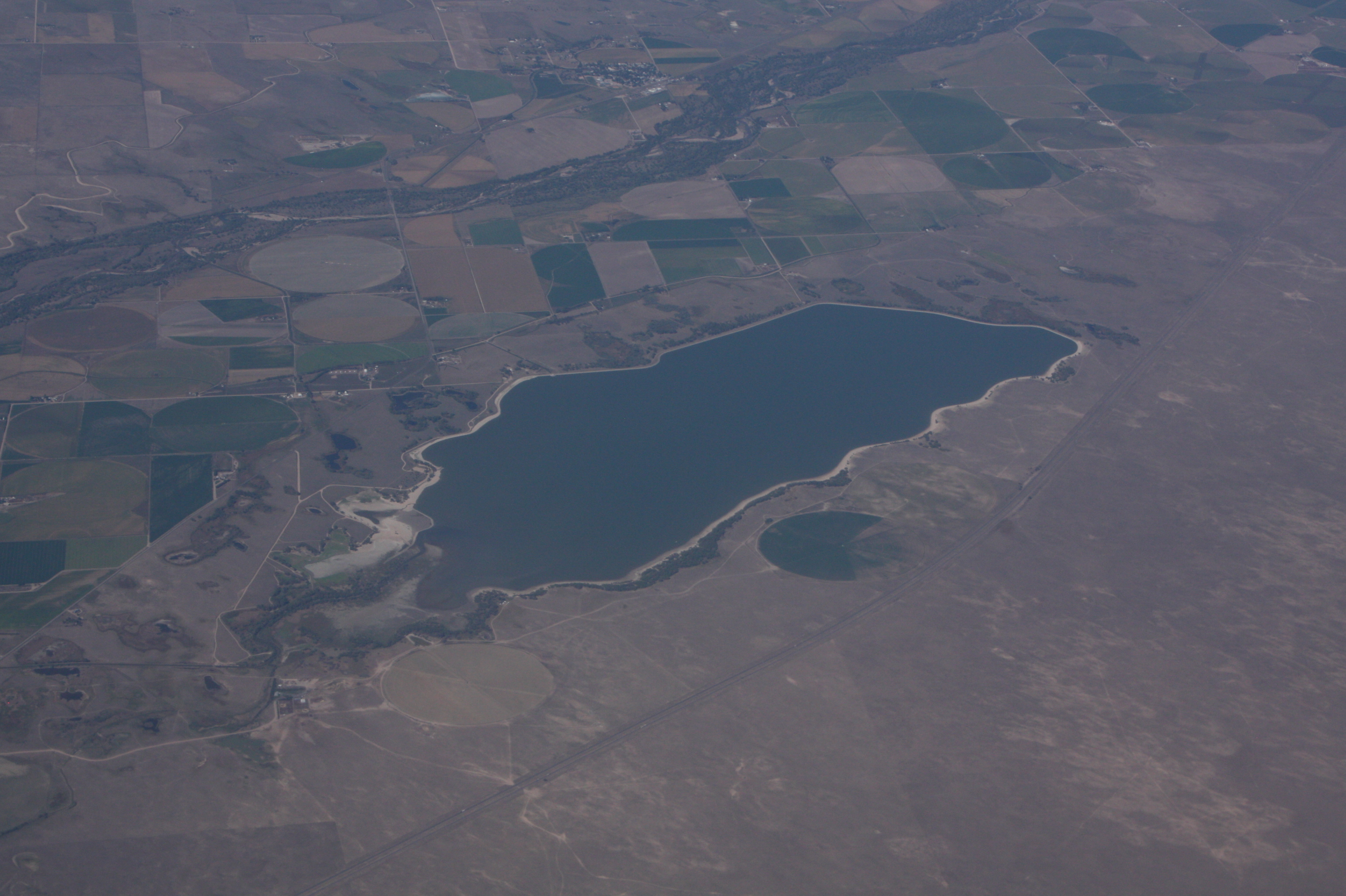 Oblique air photo of Prewitt Reservoir, Colorado, facing approximately north, September 2018.